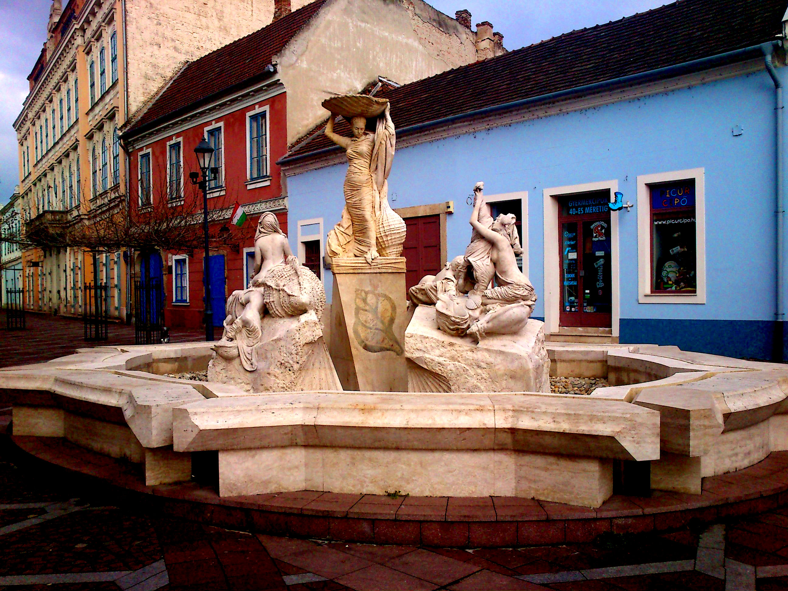 Ister fountain (Esztergom, Széchenyi square)